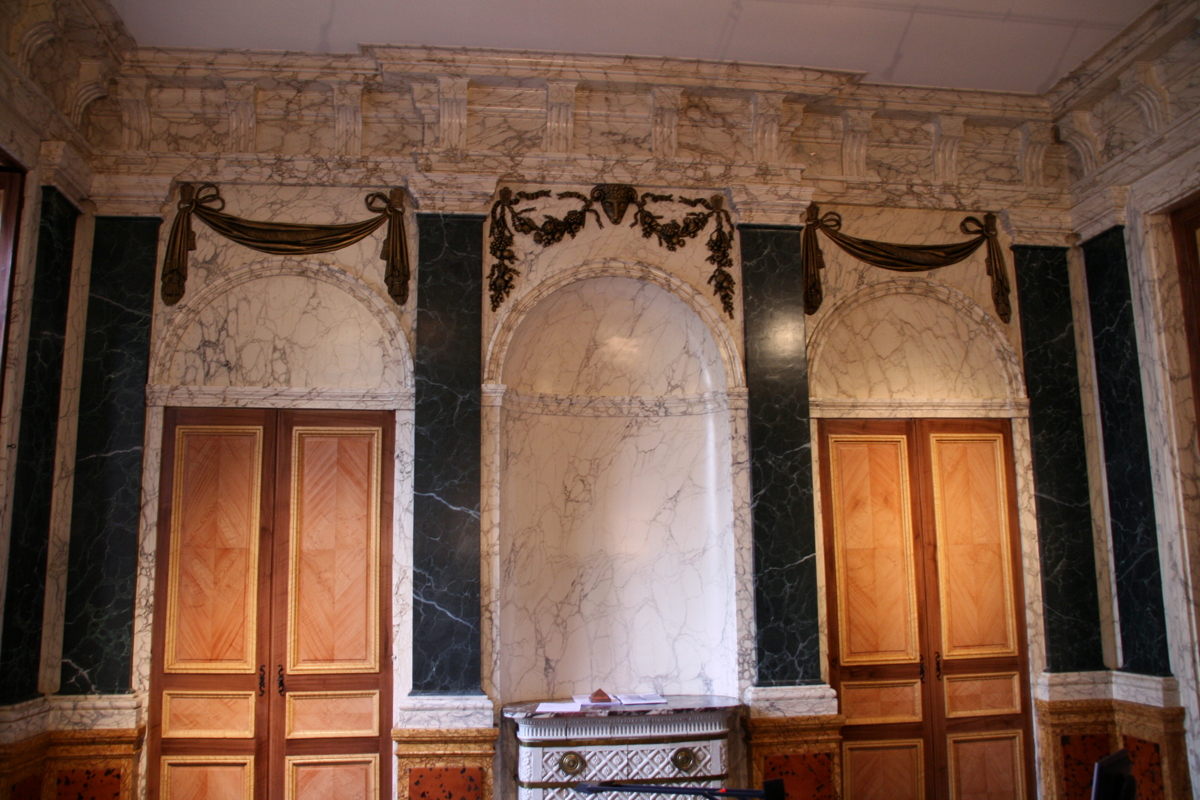 Former dining room of the hôtel de Maquillé, Angers, Maine-et-Loire, Pays de la Loire, France. The top of the tiled stove, registered as historical monuments, can be seen below.